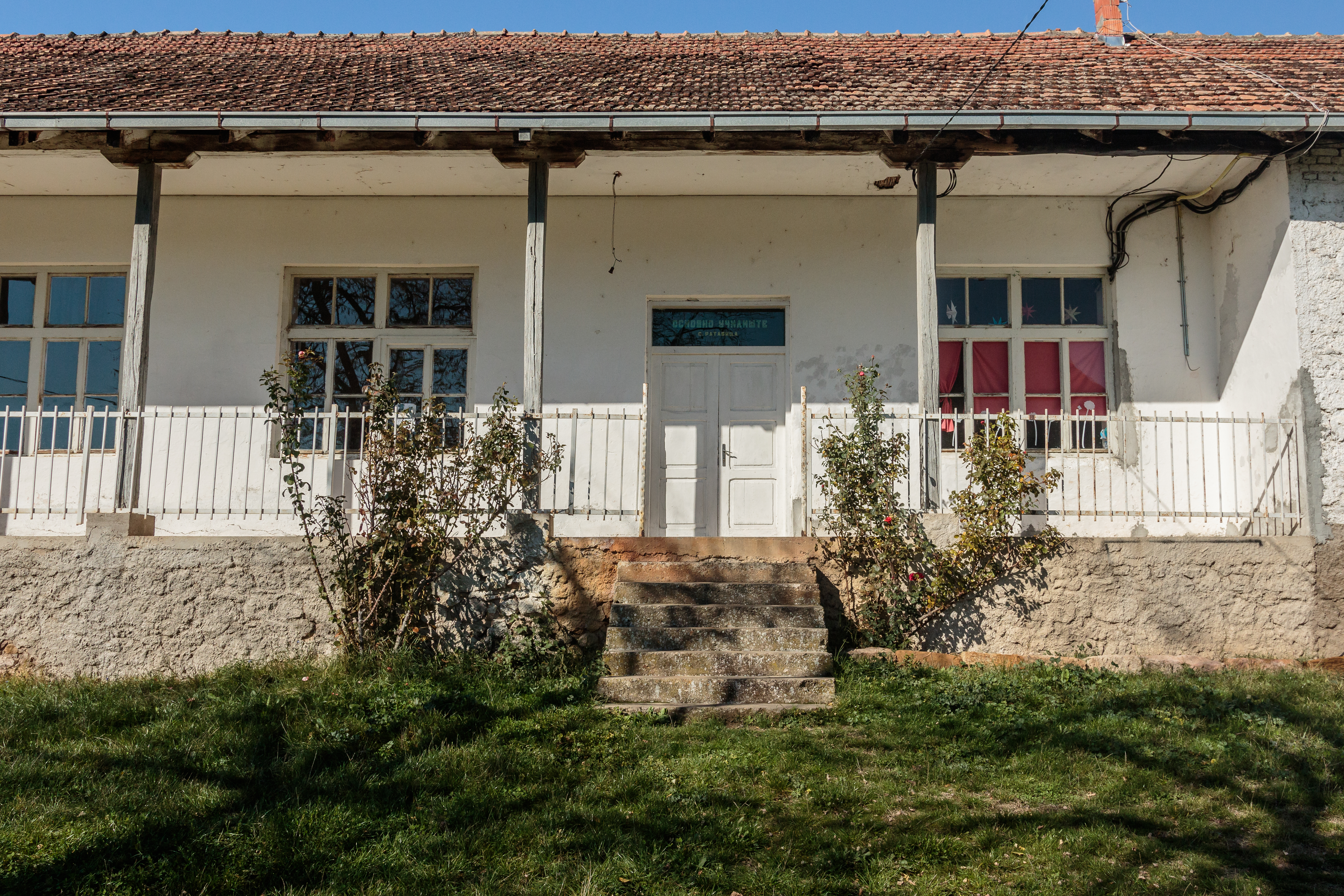 Provincial school 'Miladinov Brothers' in the village of Ratavica, Zletovo-Probištip Region, Macedonia